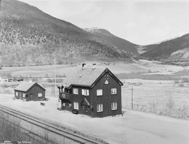 Sel railway station, on Dovrebanen in Oppland, Norway.